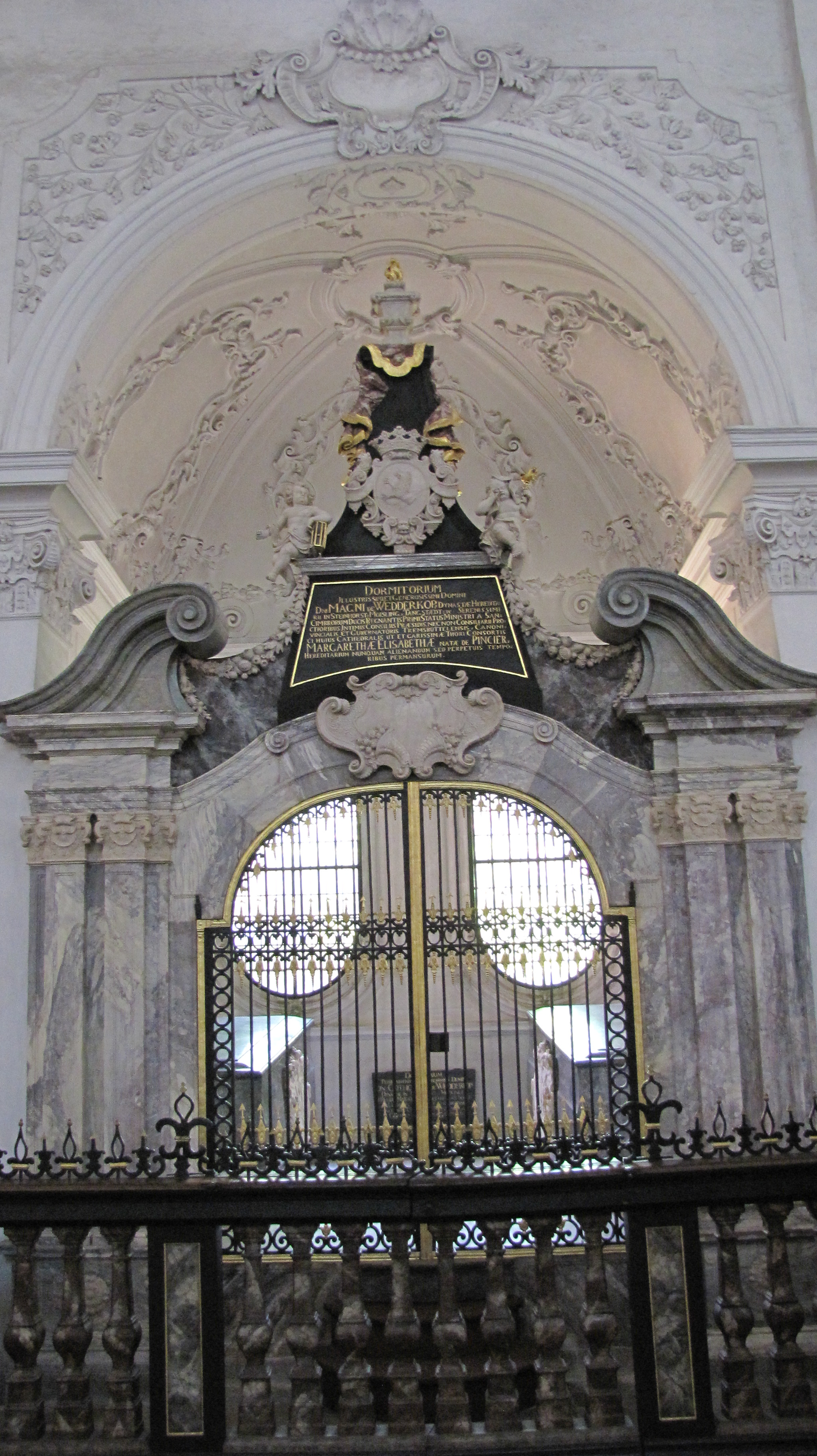 View of the Wedderkopp burial chapel, Lübeck cathedral